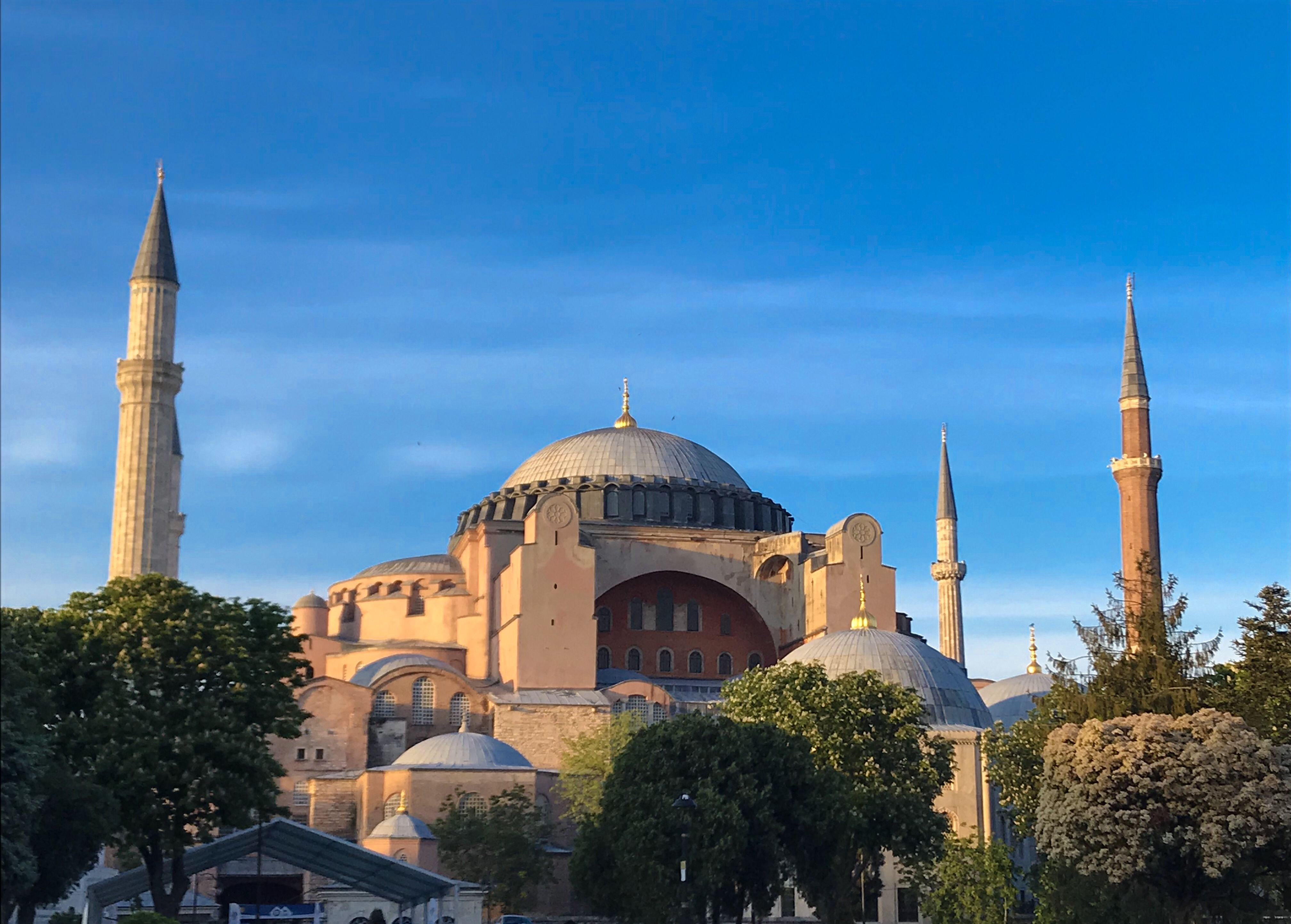 Hagia Sophia, Sultanahmet Square, Istanbul Turkey.